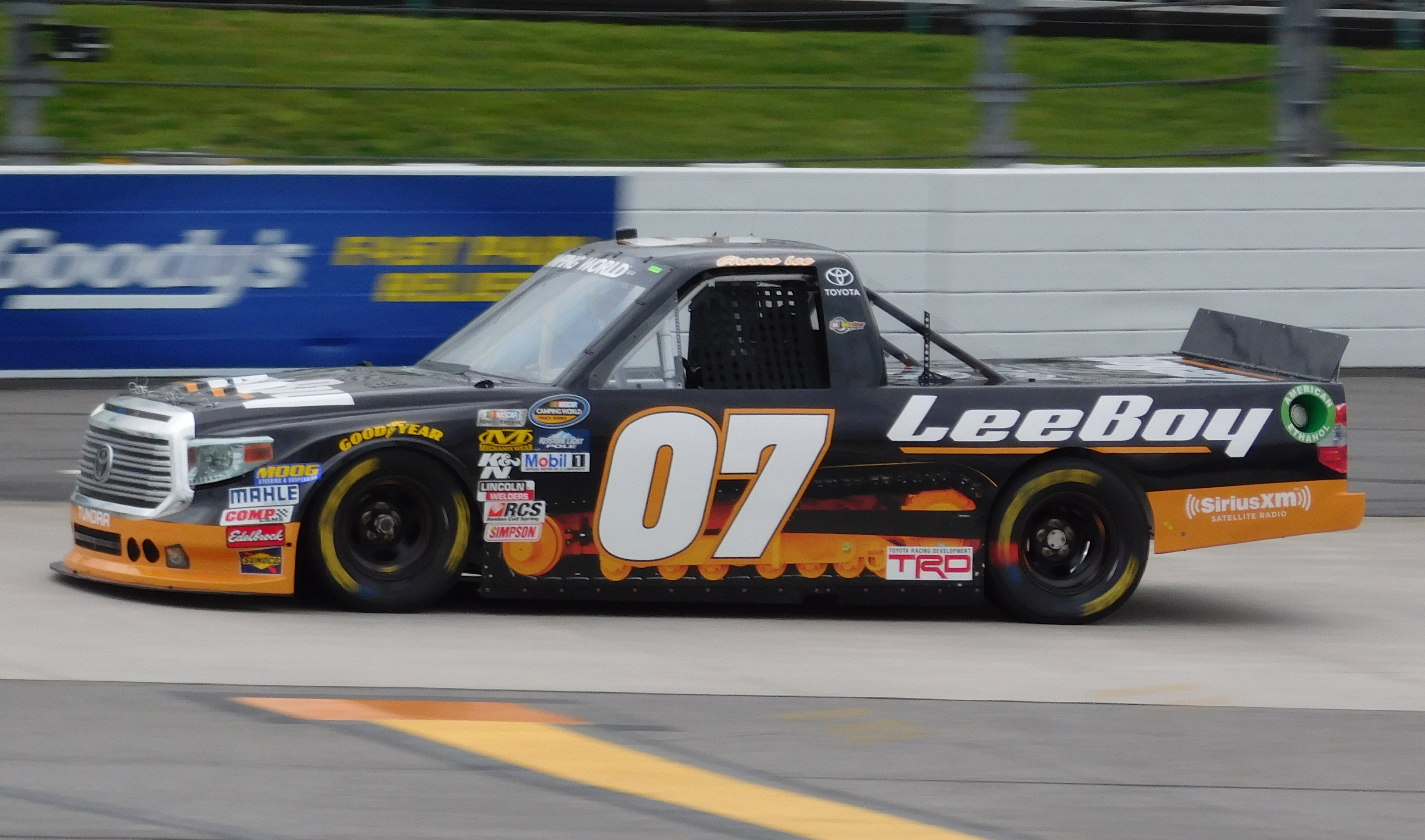 Shane Lee's No. 07 Lee Boy Toyota at Martinsville Speedway in 2016